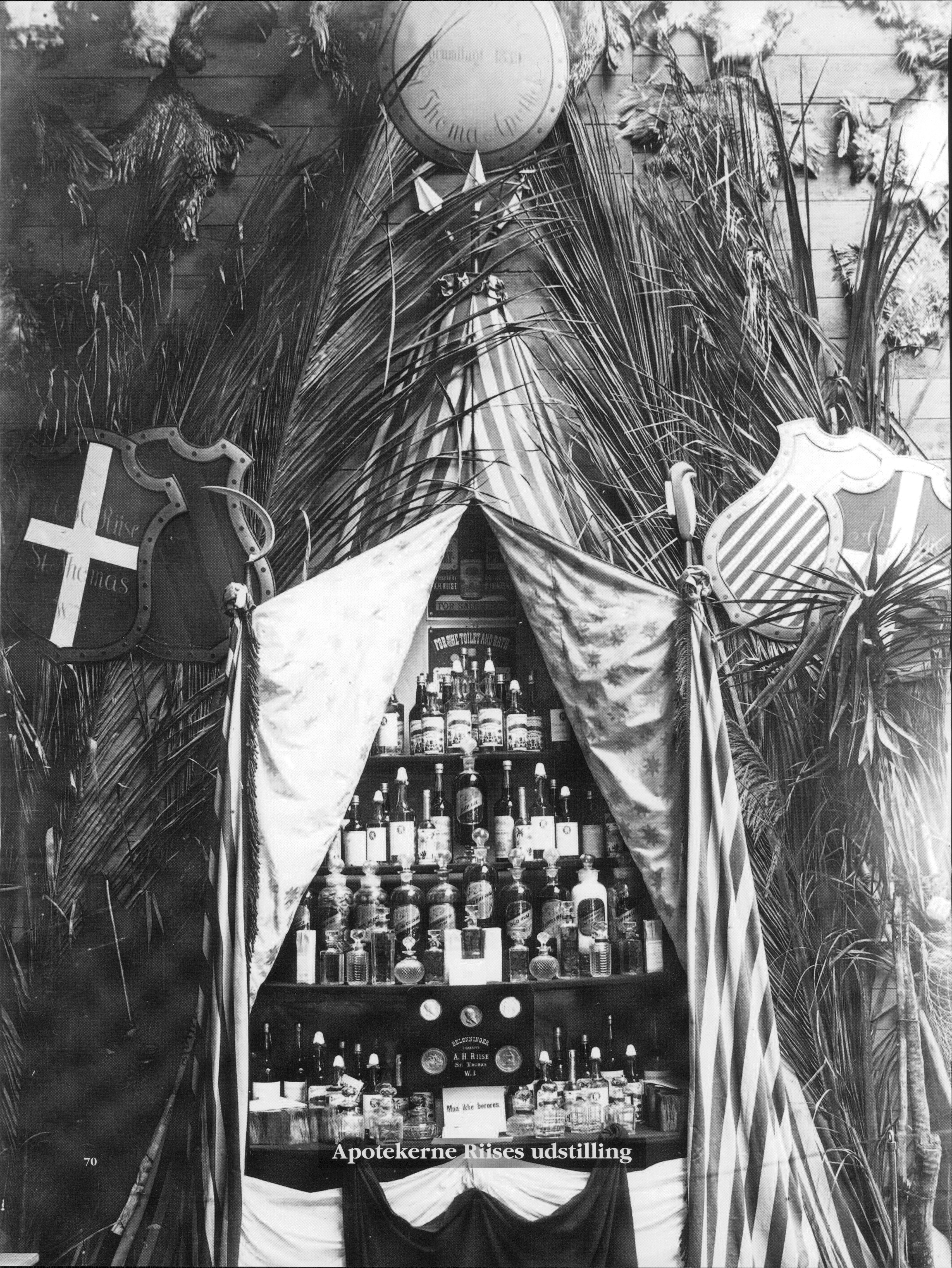 Copenhagen World Exhibition 1888 AH Riise. Taken by Kalr Riise where company won Gold Medal